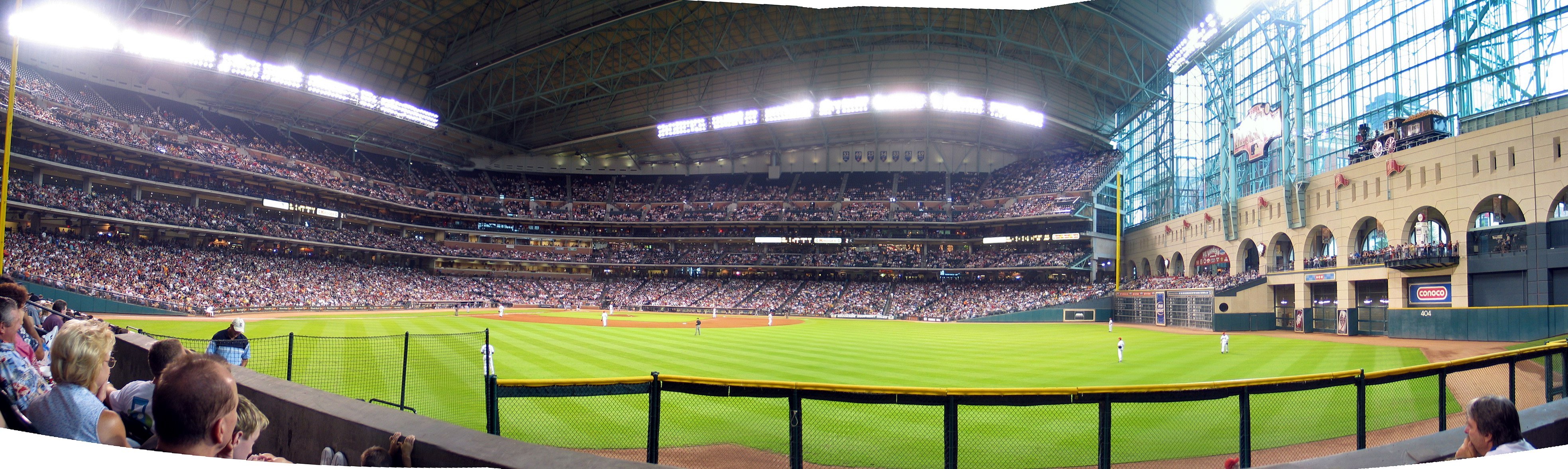 Panoramic interior view of the Minute Maid Park in Houston